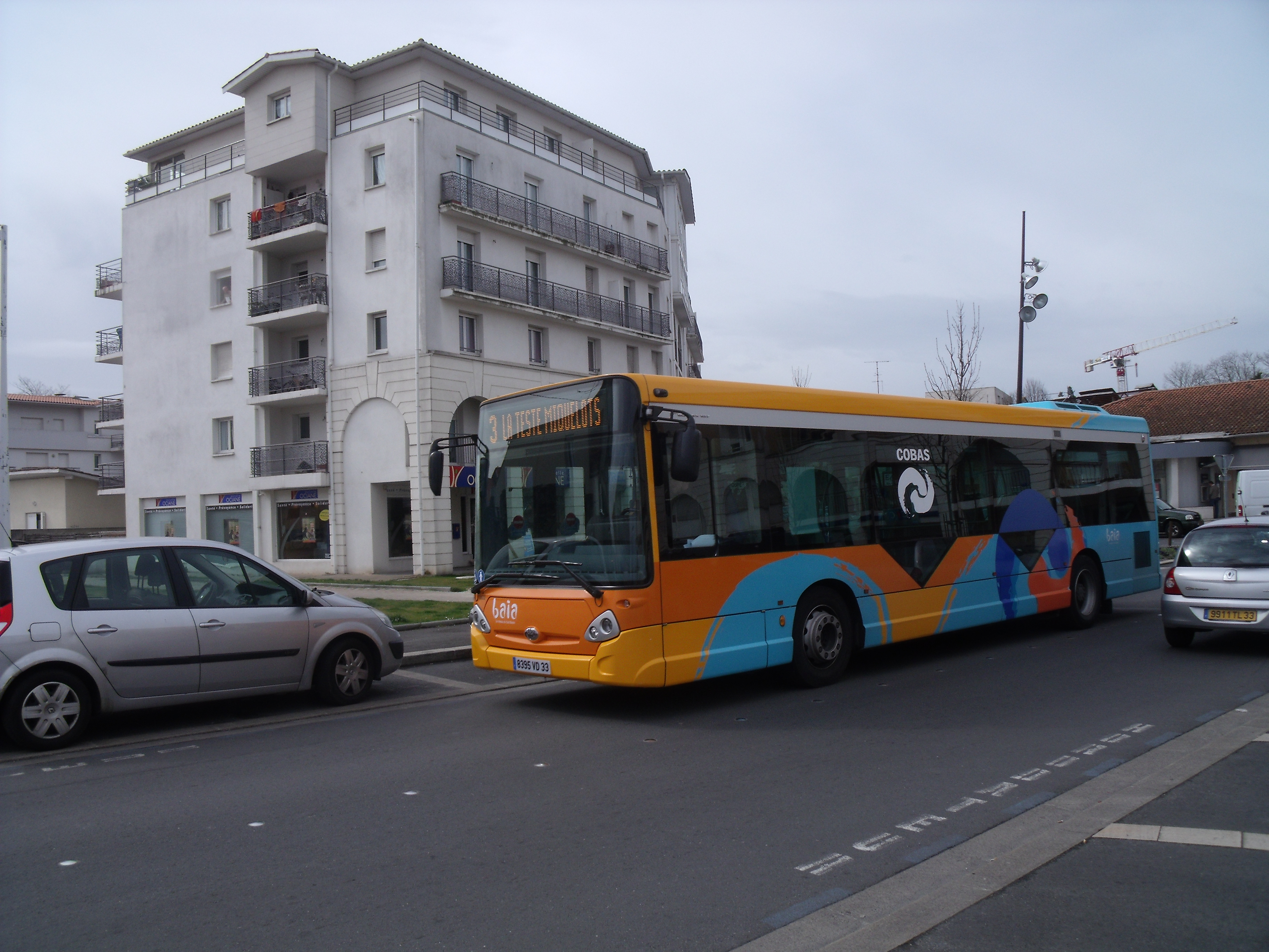 A bus "Baïa" in La Teste-de-Buch (33), France.